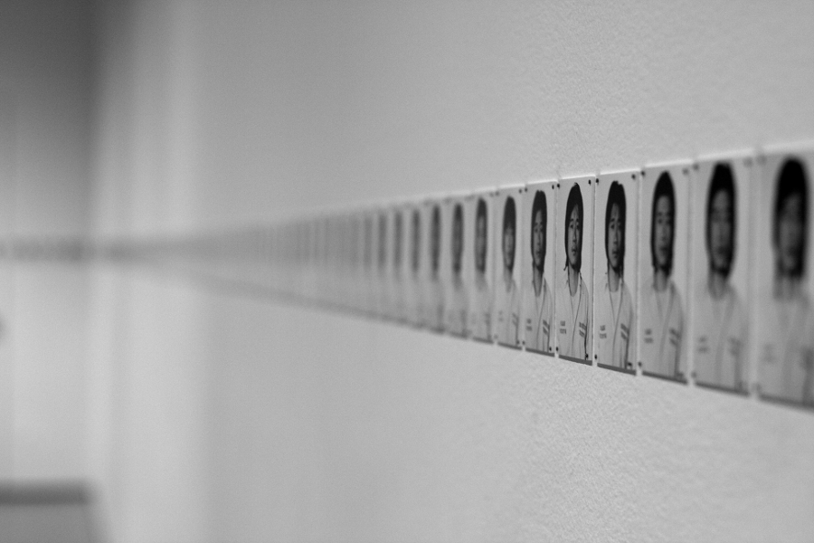 View of photographic installation and record of Tehching Hsieh's "One Year Performance 1978–1979" (Cage Piece). This was exhibited at New York's Museum of Modern Art (MoMA) in 2009. photo credit: vhf victor felder some rights reserved, license CC-BY-SA